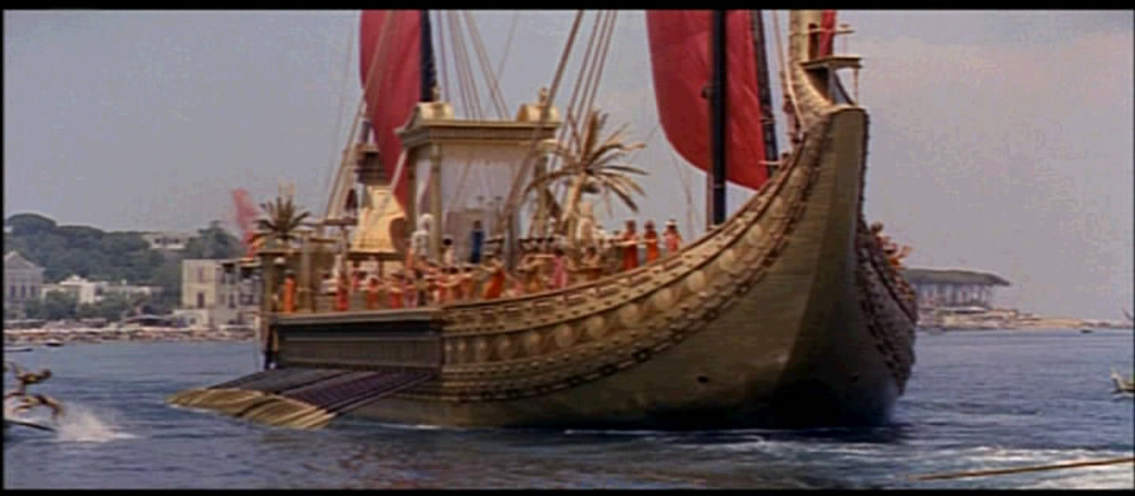 Screenshot from the trailer for the film Cleopatra.